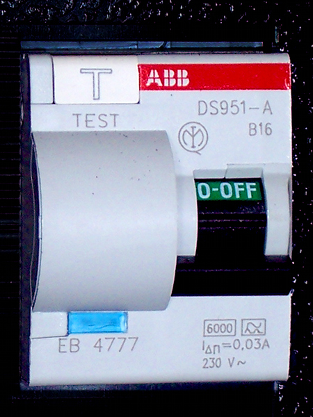 ABB (Asea Brown Boveri) RCBO (residual current circuit breaker with overload protection)